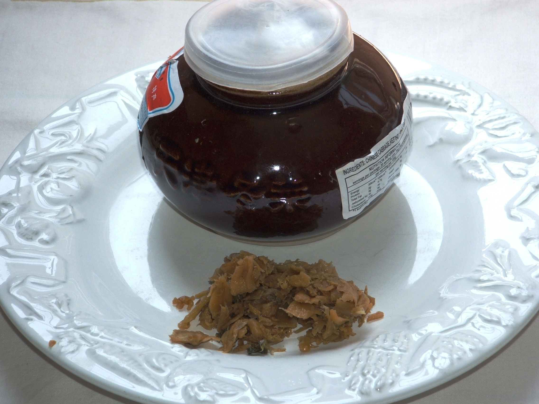 Tian jian preserved vegetable 天津冬菜, a type of pickled Chinese cabbage originating in Tianjin, China. It consists of finely chopped Tianjin cabbage (箭杆菜; a variety of Chinese cabbage with an elongated shape) and salt. Garlic is also often added.